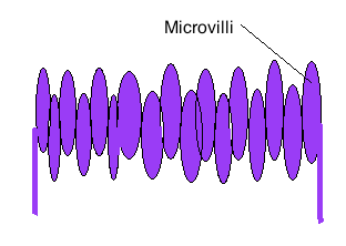 The image illustrates microvilli on the cytoskeleton of a cell.